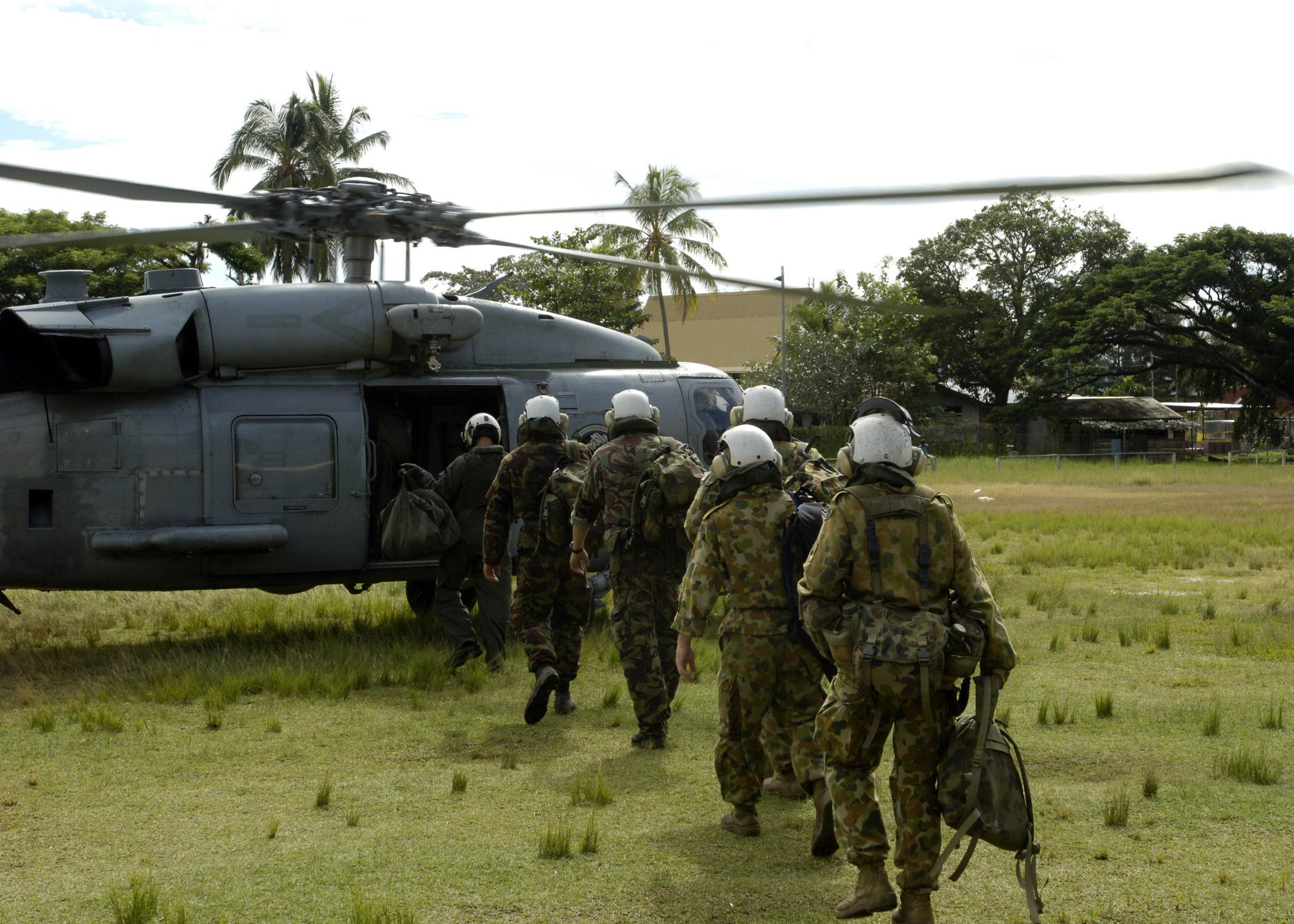 TITIANA, Solomon Islands (April 16, 2007) U.S., New Zealand and Australian service members board Helicopter Anti-Submarine Squadron 10’s SH 60F Sea Hawk helicopter to administer medical aid in outlying areas of the Solomon Islands. The helicopter and crew is deployed aboard USNS Stockham (T-AK 3017), which is in the Solomon Islands to facilitate the U.S. Department of State and non-governmental organizations humanitarian assistance operation. On April 2, an 8.1 magnitude earthquake and resulting tsunami struck the Solomon Islands, causing casualties and significant damage. USNS Stockham is one of 16 U.S. Navy Maritime Pre-Positioning Ships and is part of Military Sealift Command’s Pre-Positioning Program and has a mixed crew of U.S. Navy personnel and Merchant Marine seamen.